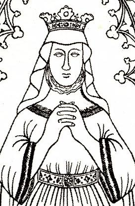 Queen Richeza (1210) of Sweden as drawn for her (never used) gravestone in Sweden